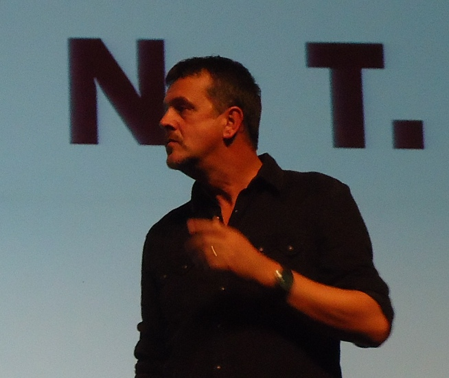 Mark Billingham, at "Bloody Scotland" Crime Writing Festival, Stirling 2013